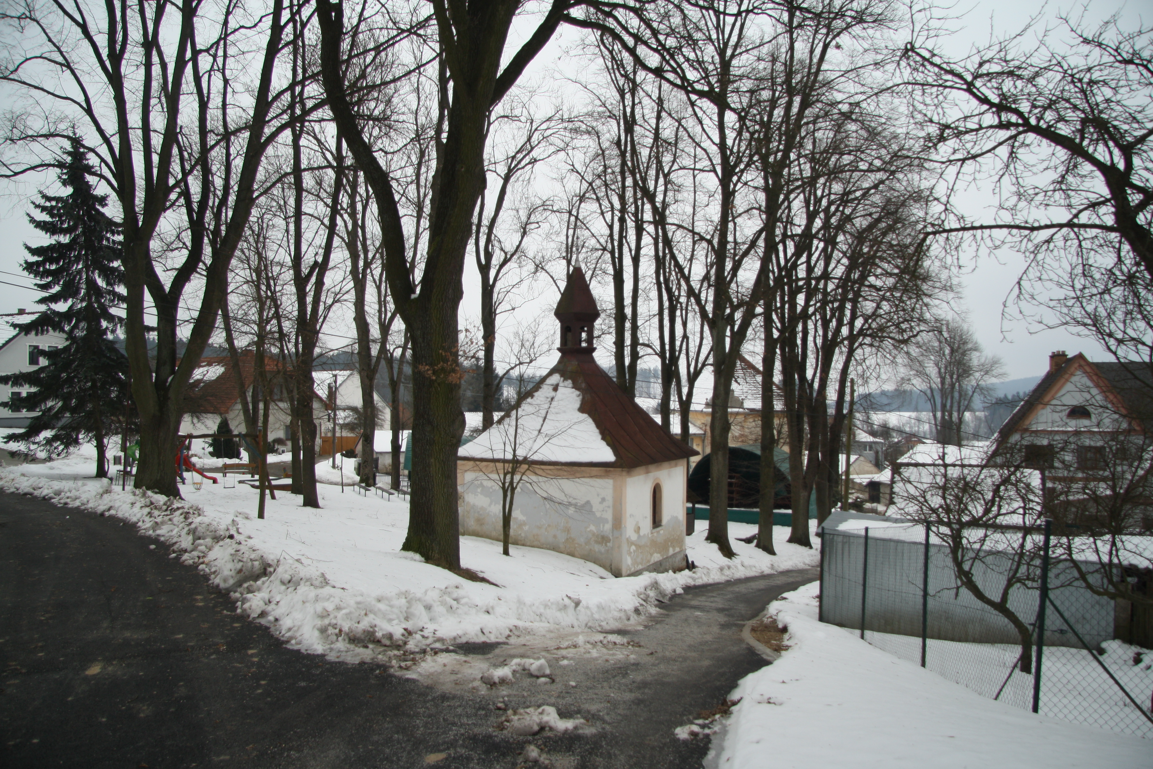 Center of Jiřín, Vyskytná nad Jihlavou, Jihlava District.